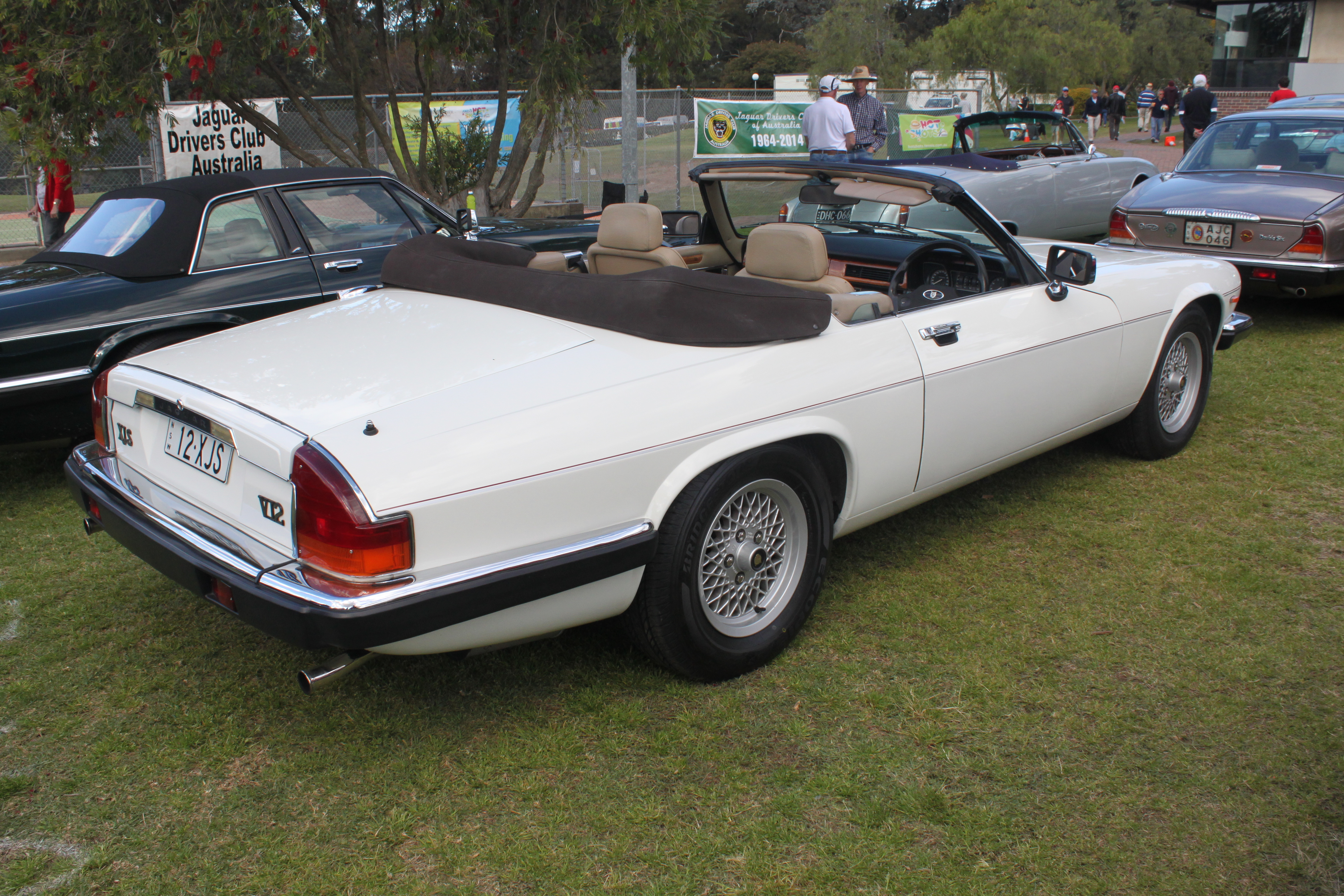 All British Day, Kings School, North Parramatta, NSW August 2015